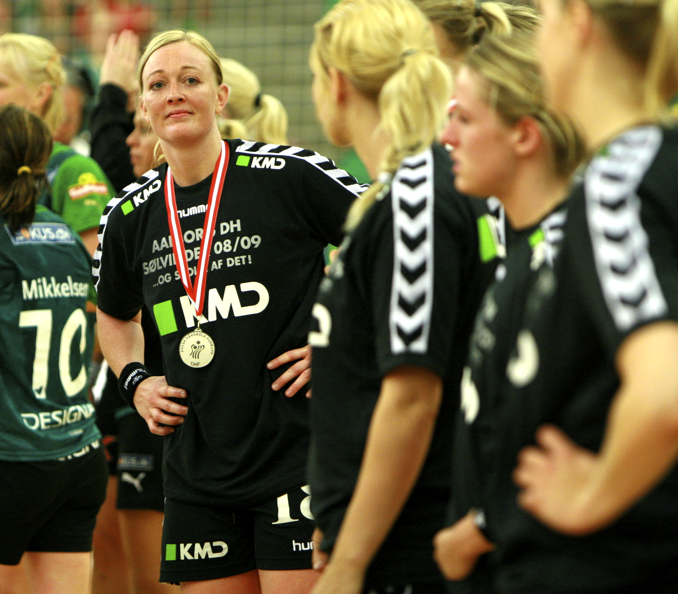 Karen Brødsgaard with the silver medal.